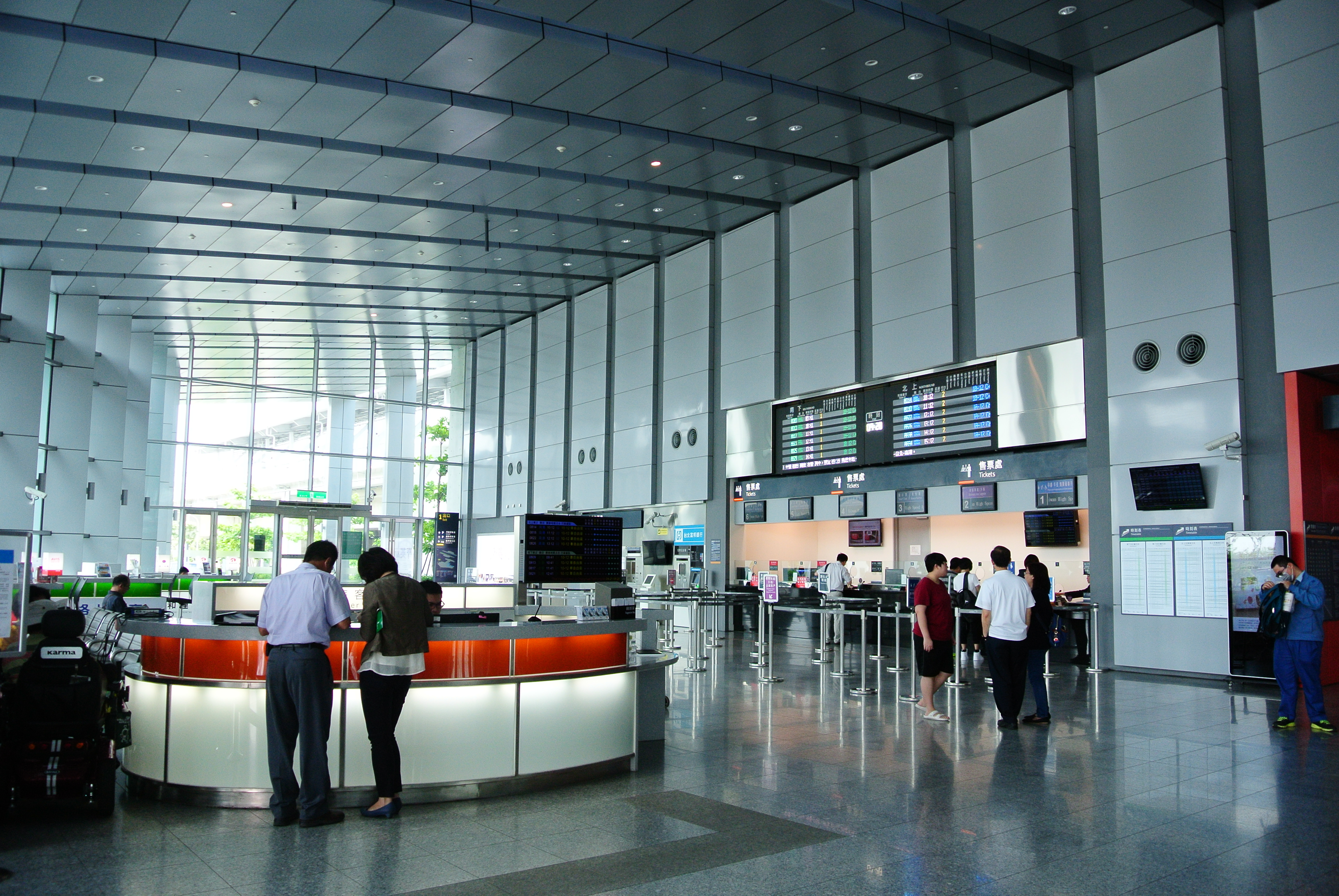 The station hall of THSR Yunlin Station.